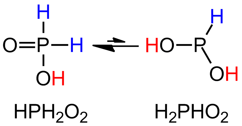 Tautomerism of hypophosphorous acid